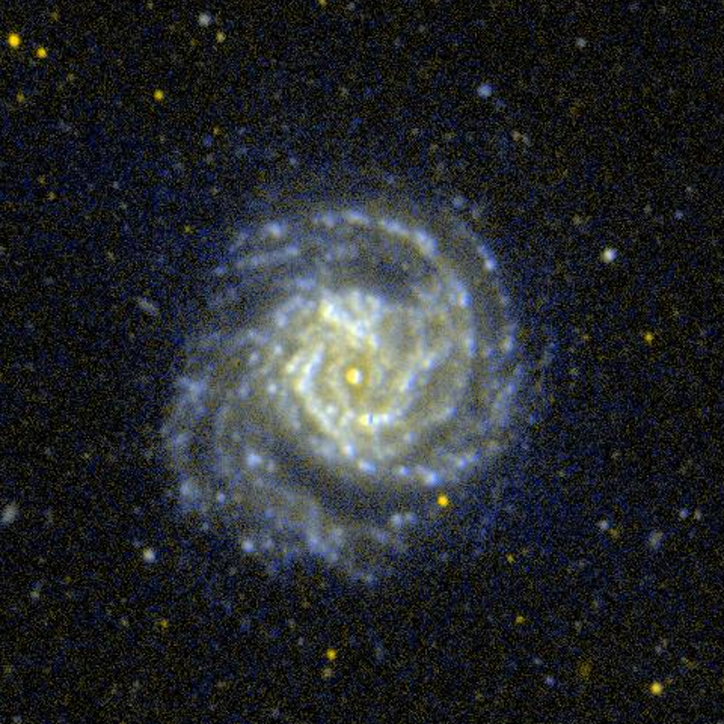 Messier 61 by GALEX